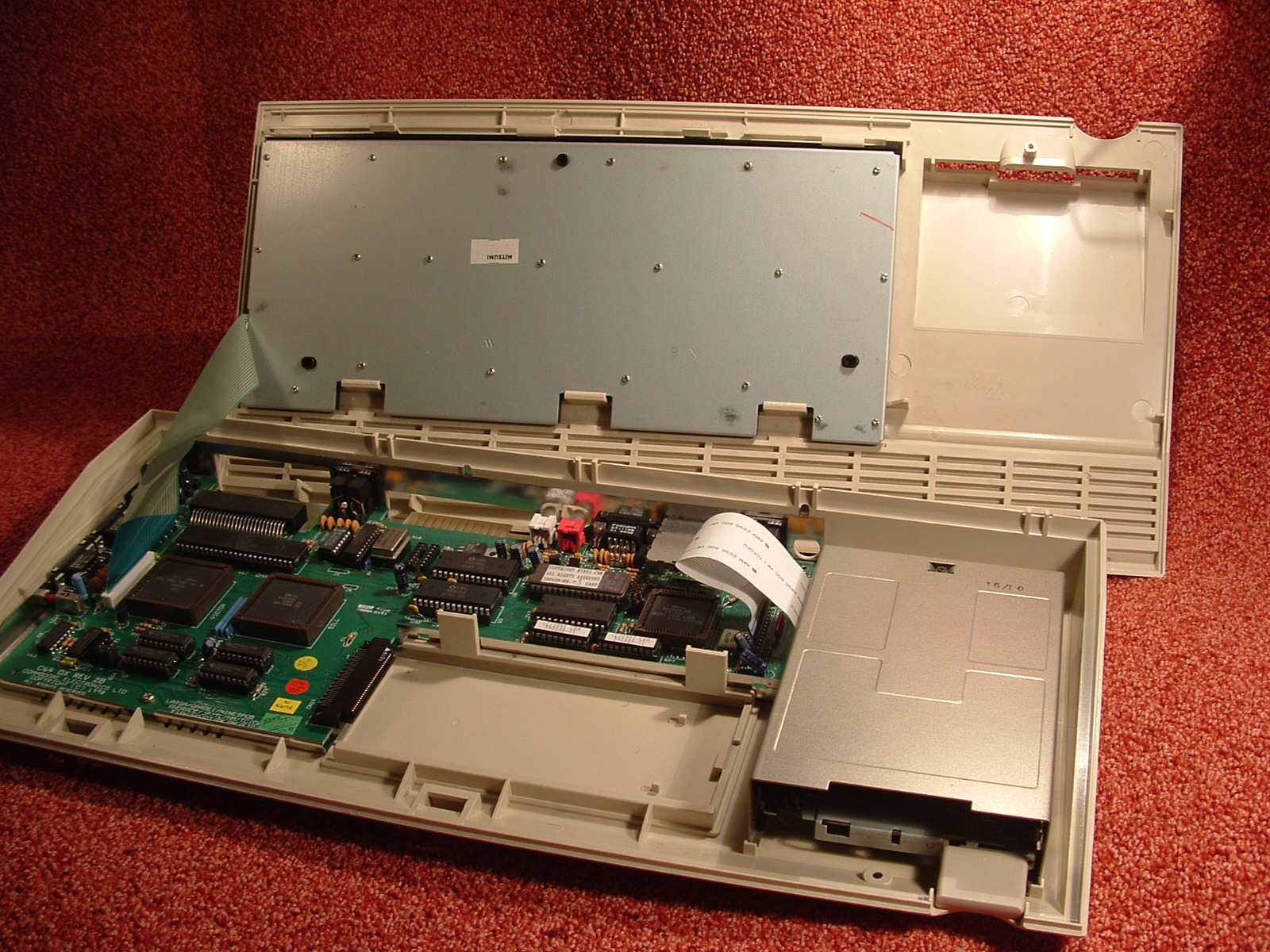 Commodore 65 with opened case